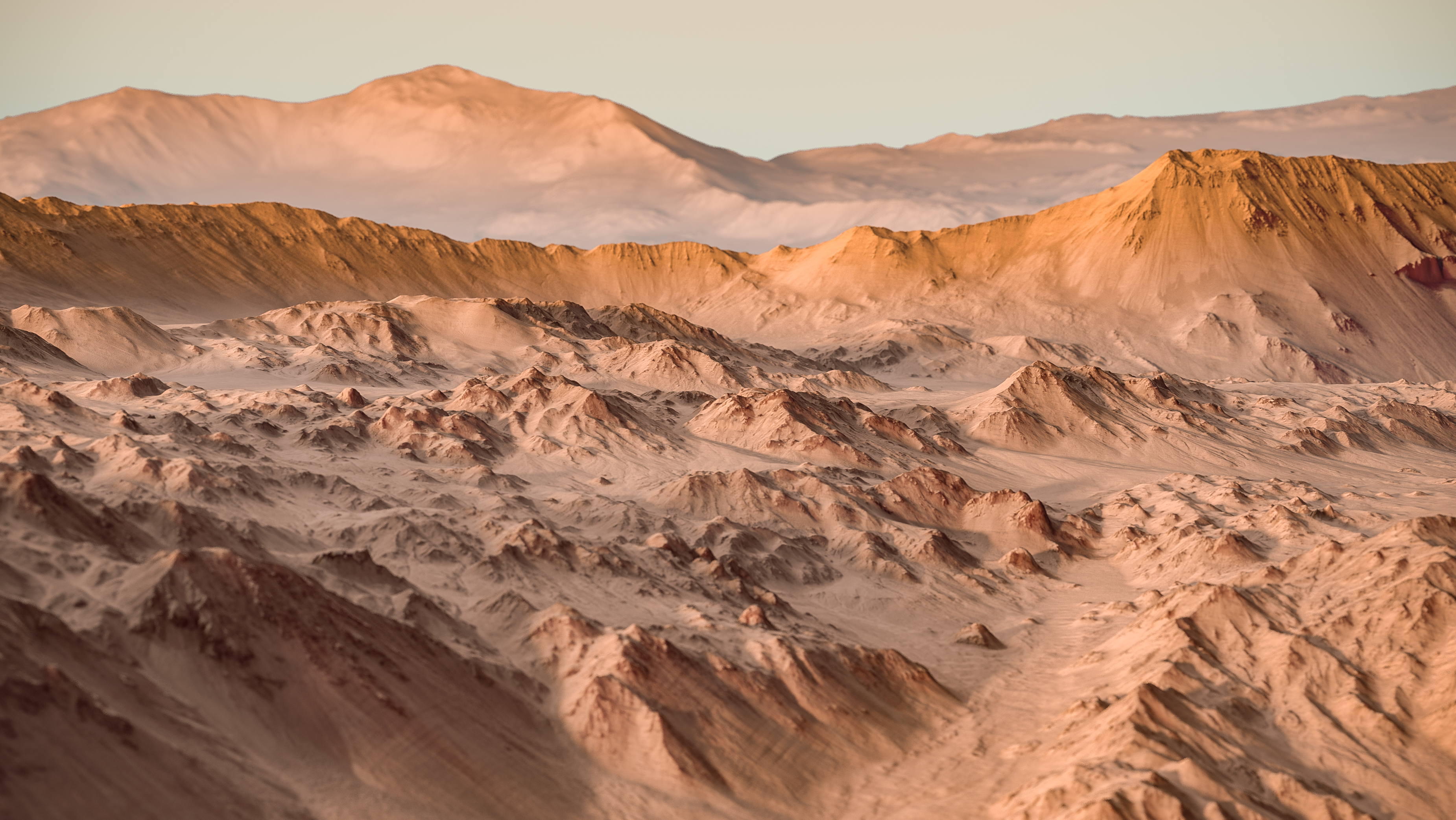 Rendered using Autodesk Maya and Adobe Lightroom. HiRISE data processed using gdal. Data: NASA/JPL/University of Arizona/USGS